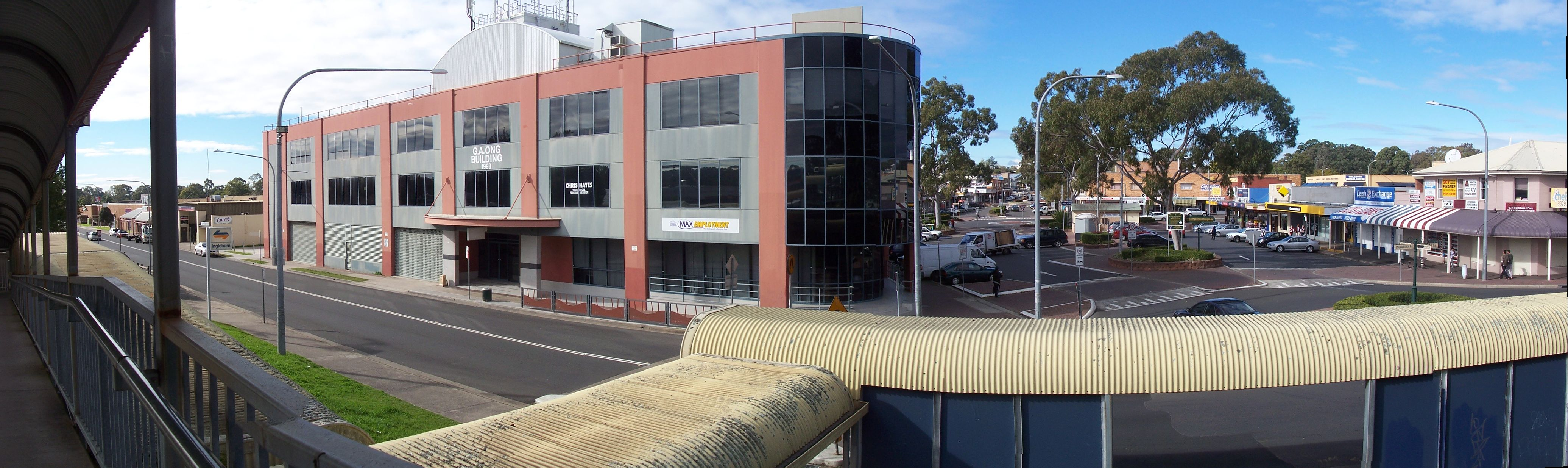 Panaroma of Ingleburn